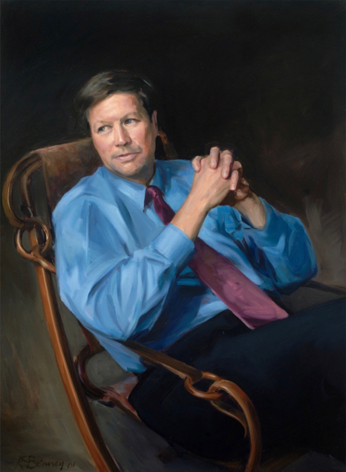 Budget Committee Chairman John Kasich is shown in a rare moment of quiet in this portrait by Paul Benney. Kasich was well-known as a whirlwind of activity during his tenure on the Budget Committee. His relaxed pose, clasped hands, and gaze directed out the frame may indicate contemplation, but this is not a placid painting. The free handling of the paint and flowing curves of the chair frame provide a sense of action in repose.